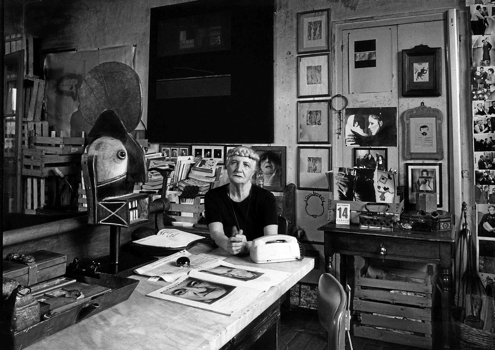 Photograph of the Italian painter Carol Rama (1918–2015).